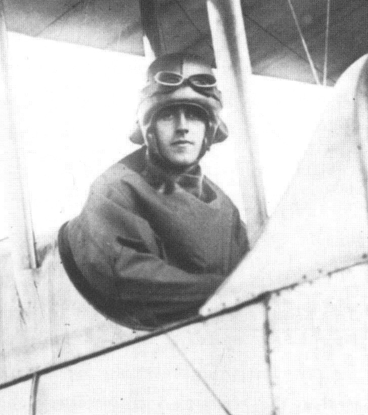 Lieutenant H A Petre (later Major) in a B.E.2a at Central Flying School at Point Cook, Victoria, Australia